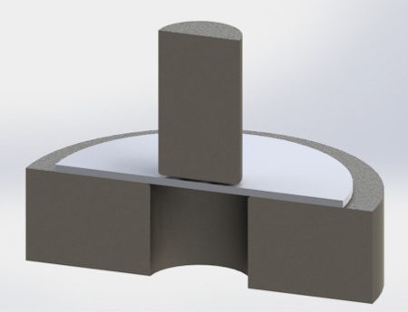 Embutición de copa 1